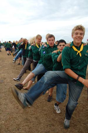 Pathfinders (Seventh-day Adventist) on the way for a meeting under Camporeen in 2006